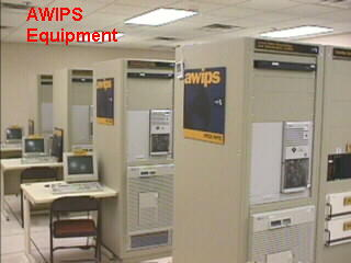 Advanced Weather Interactive Processing System equipment.